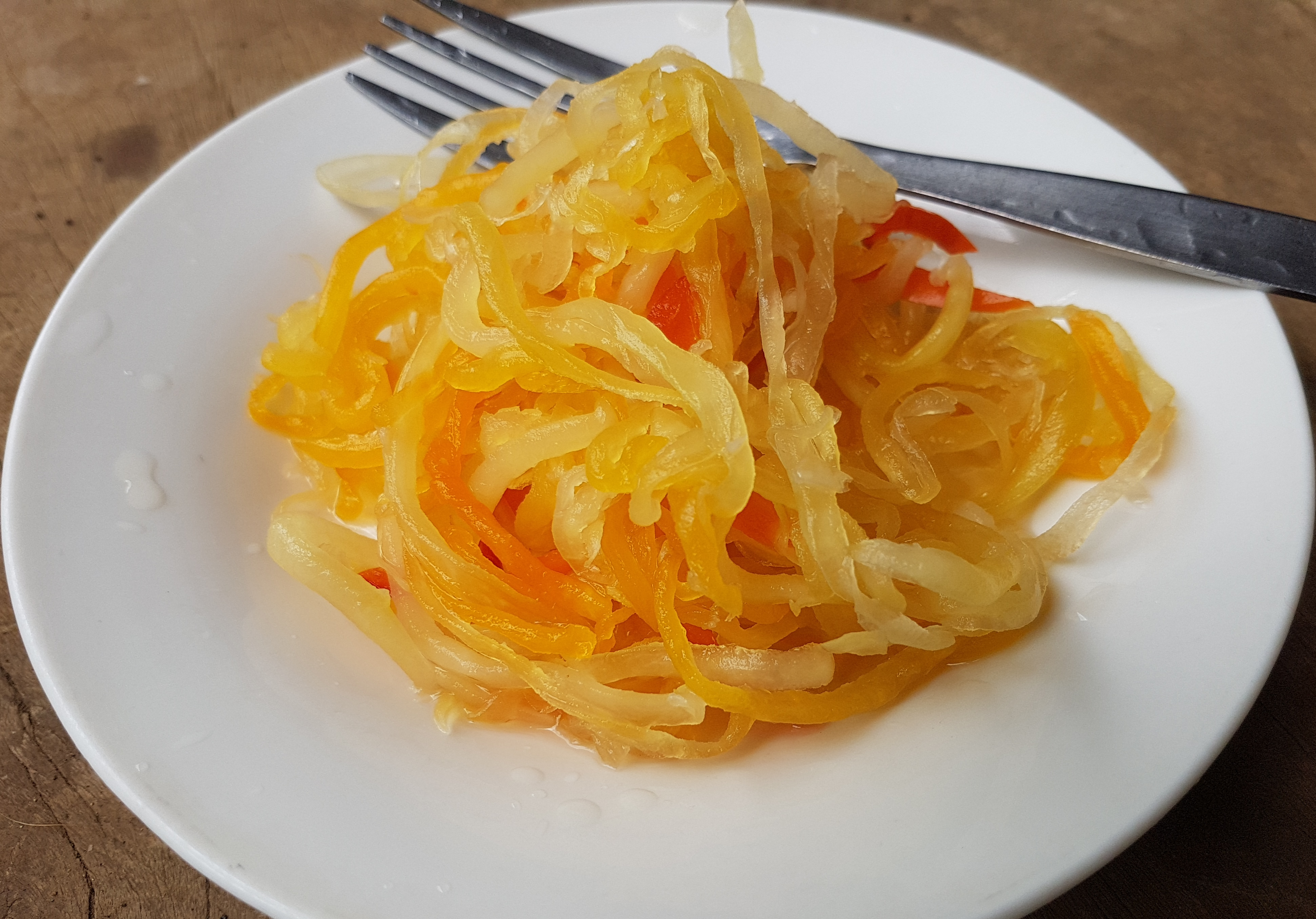 Atchara - pickled papaya (Philippines)